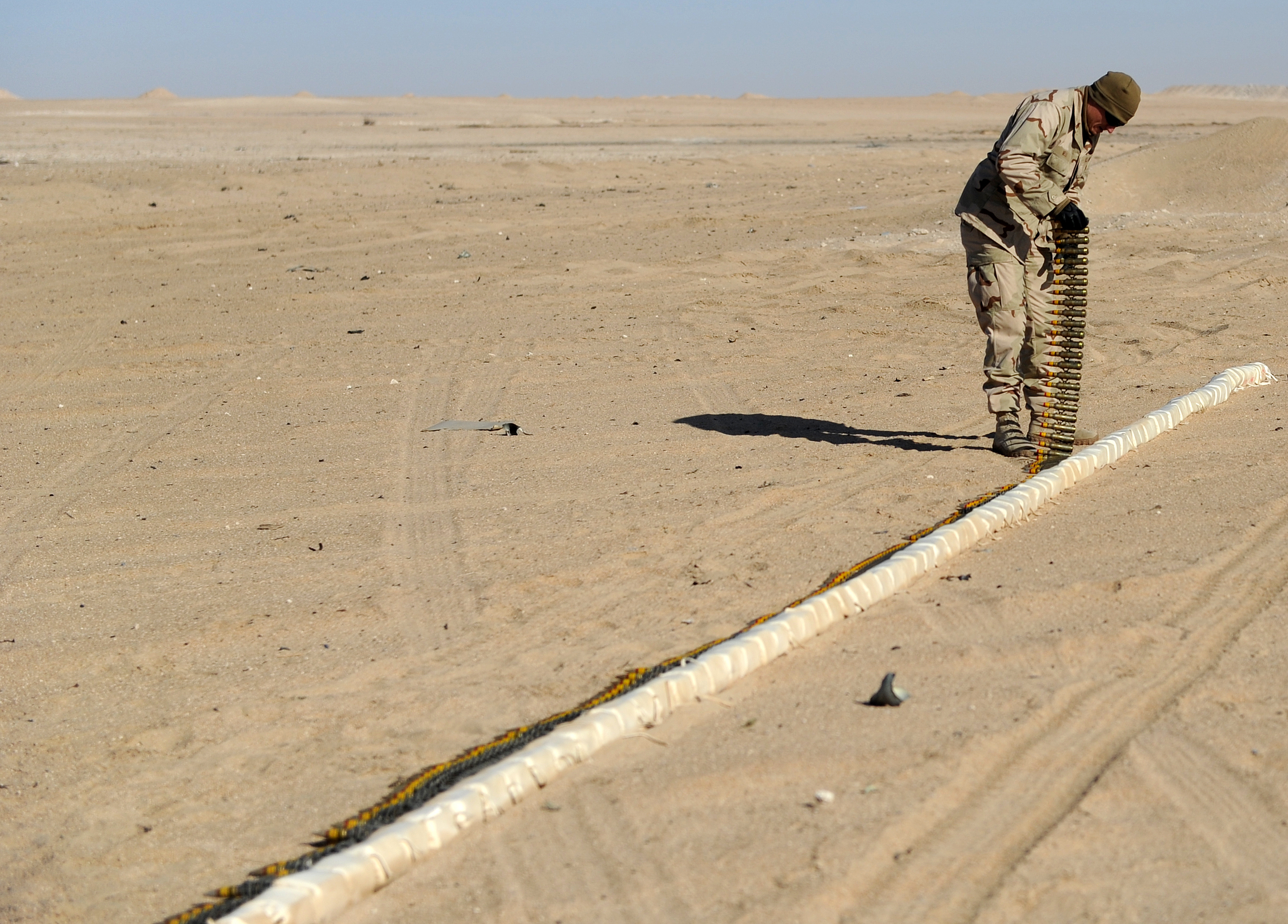 CAMP BUEHRING, Kuwait (Dec. 13, 2011) Lt. j.g. Jacob Mello, assigned to Commander, Task Group 56.1, prepares 25 mm high-explosive incendiary rounds for disposal by placing them next to a mine clearing line charge during demolition operations supervisor training. Task Group 56.1 provides mine counter-measure, explosive ordnance disposal, salvage-diving, counter-terrorism and force protection for the U.S. 5th Fleet area of responsibility. (U.S. Navy photo by Chief Mass Communication Specialist Kathryn Whittenberger/Released)